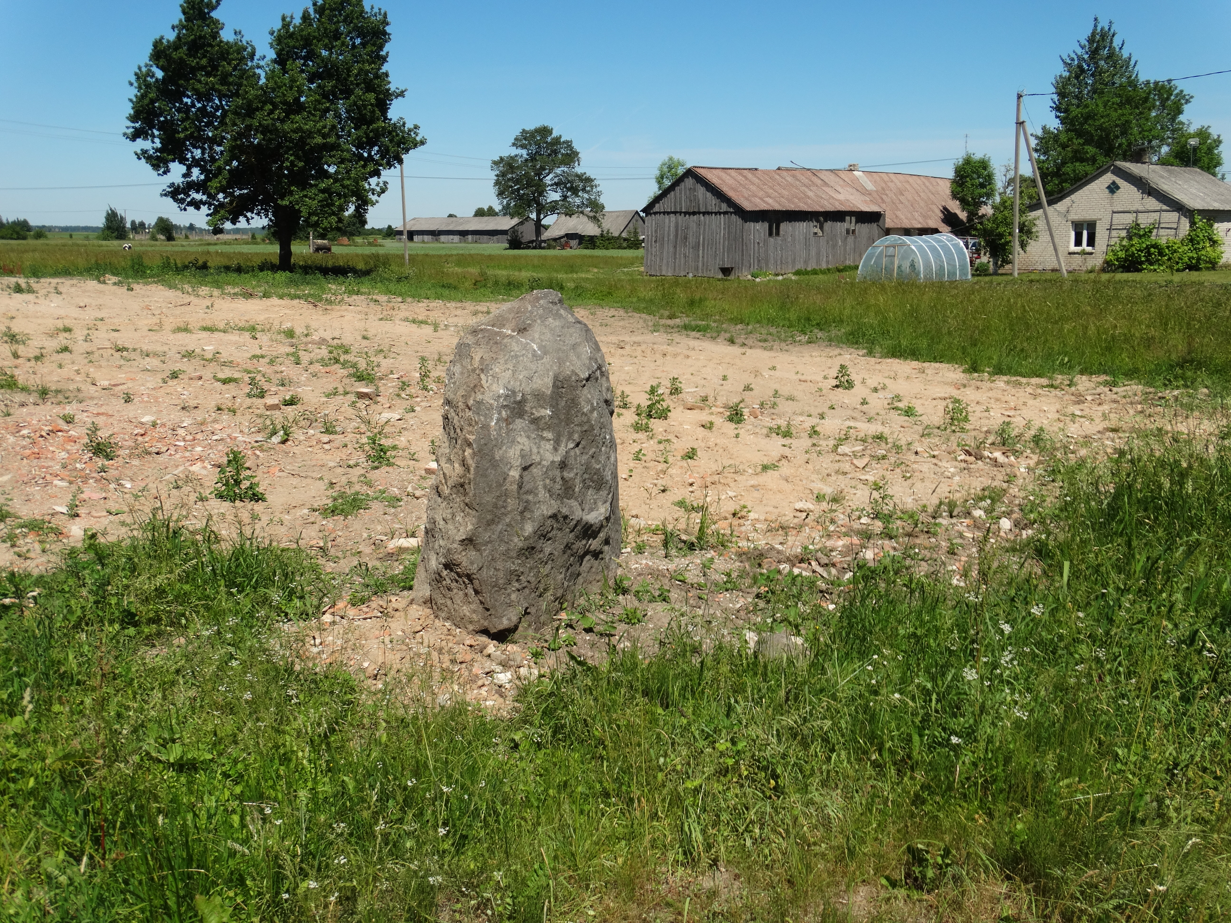 Ilgižiai, Raseiniai District, Lithuania